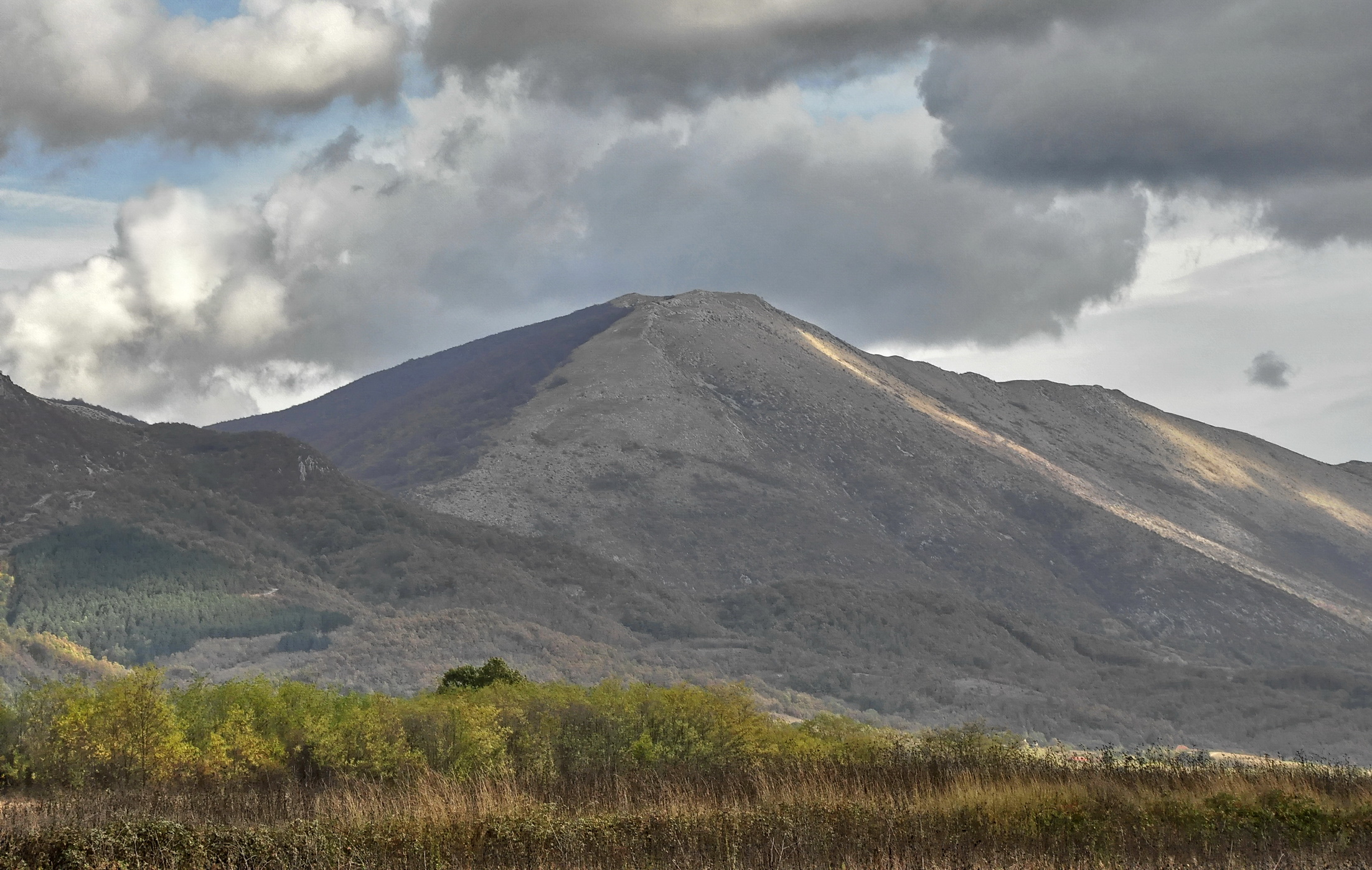 Suva planina Српски (ћирилица): Jugozapadne padine Suve planine